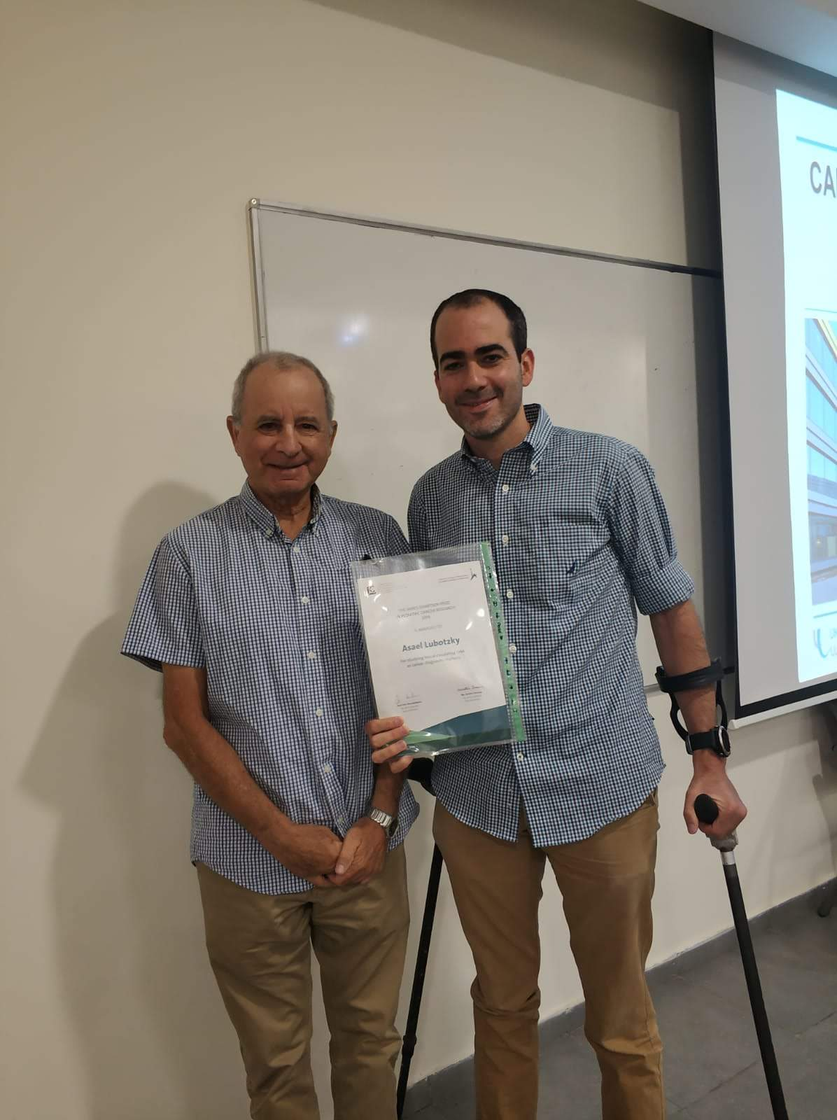 The James Sivartsen Prize in Cancer Research is awarded each year to a Hebrew University researcher who is doing the most innovative work with application to the field of pediatric cancer research. The 10th and 2019 Prize was awarded to Dr. Asael Lubotzky, a physician and a PhD. student of Professor Yuval Dor and Dr. Ruth Shemer, who works on methylation patterns of circulating cell free DNA. Dr. Lubotzky (formerly Prof. Haim Cedar lab) was recognized for his studies on circulating cfDNA as cancer diagnostic markers. At the ceremony, Asael gave a presentation of his research.